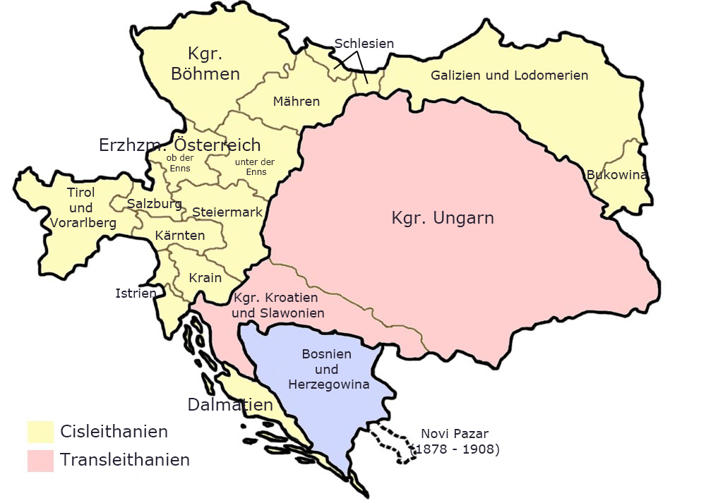 Map of Austro-Hungarian Empire (1914)